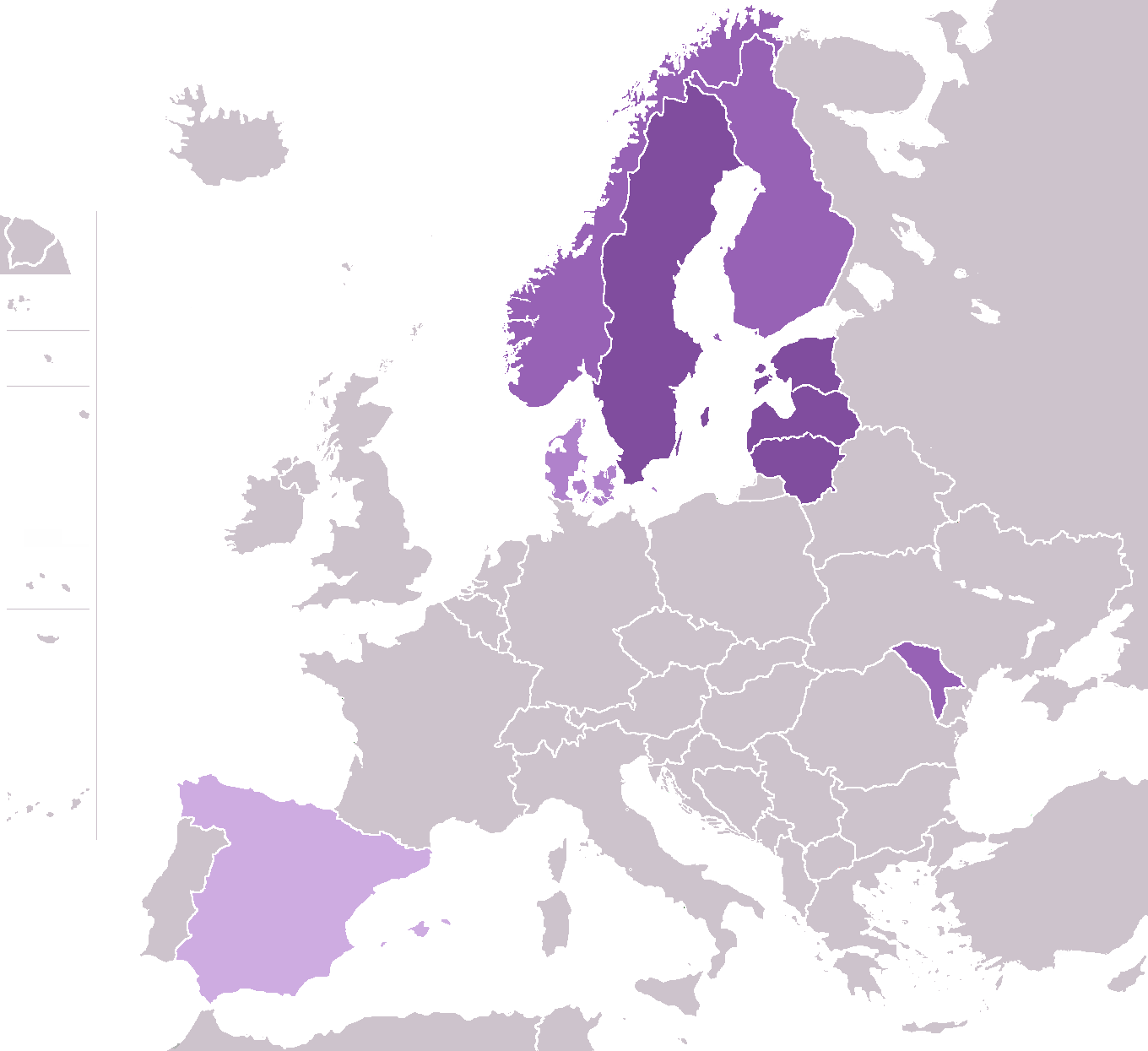 (Estonia, Latvia, Lithuania and Sweden) Leader company. (Finland, Norway and Moldova) 2nd company. (Denmark) 3rd company. (Spain) 4th company.